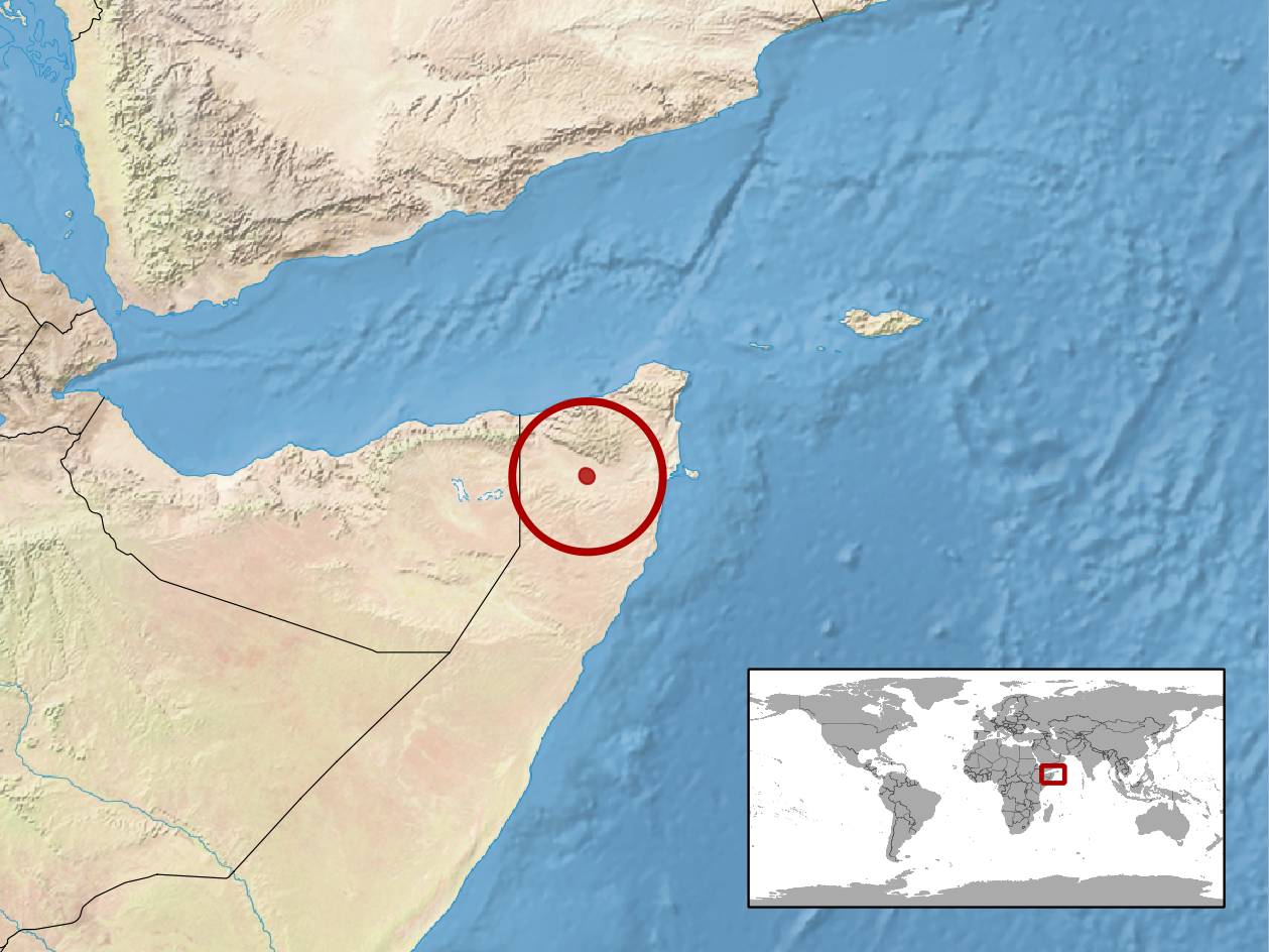 geographic distribution of Echis hughesi (Native: Somalia)